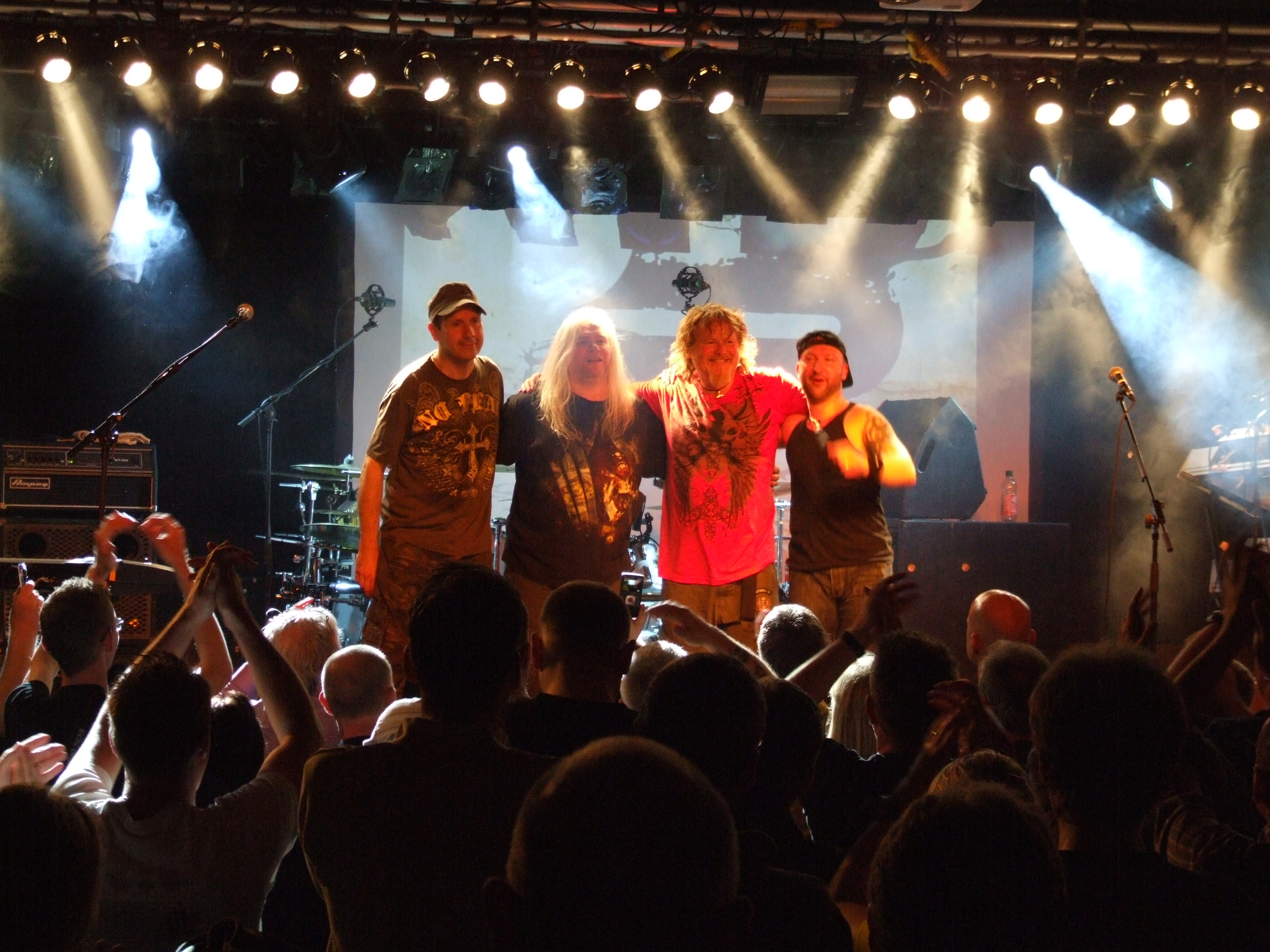 Pendragon, the british Prog-Rockband Pendragon after Concert in Aschaffenburg, Music-Club "Colos-Saal" a former cinema at 20.5.2010.